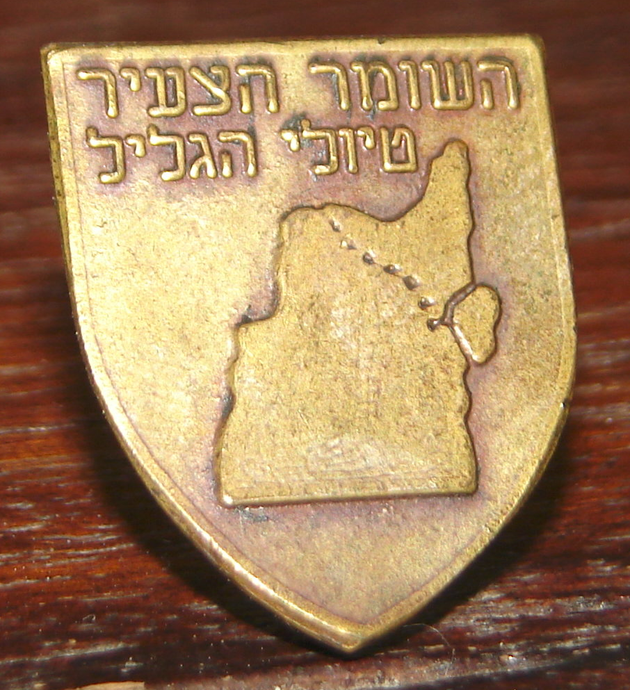 A pin given to participants of a "sea-to-sea" hike, Hashomer Hatzair youth movement, early 1980's.